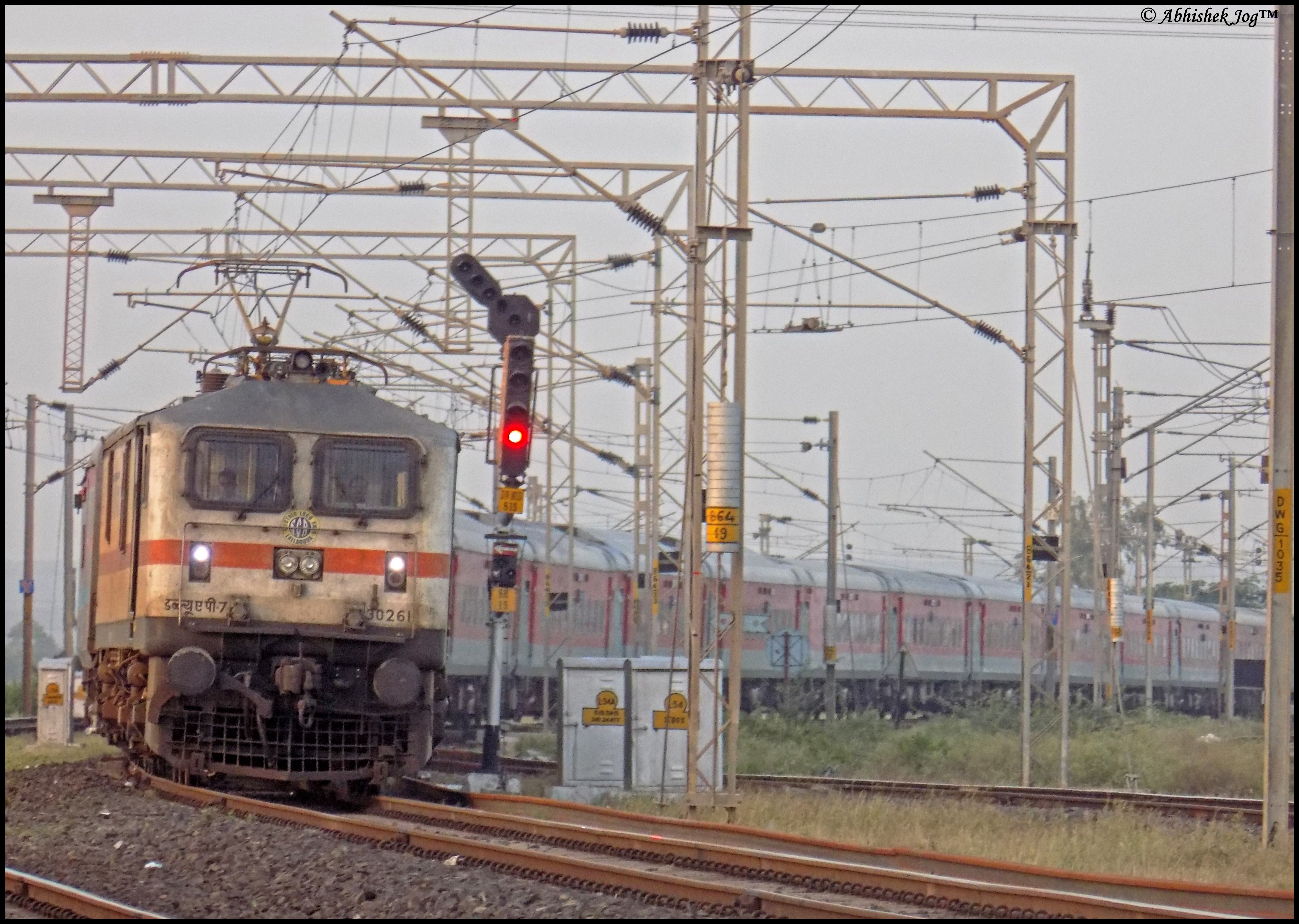 Dusty LGD WAP-7 #30261 charging on time running 22416 NDLS-VSKP A.P. A.C. Express.